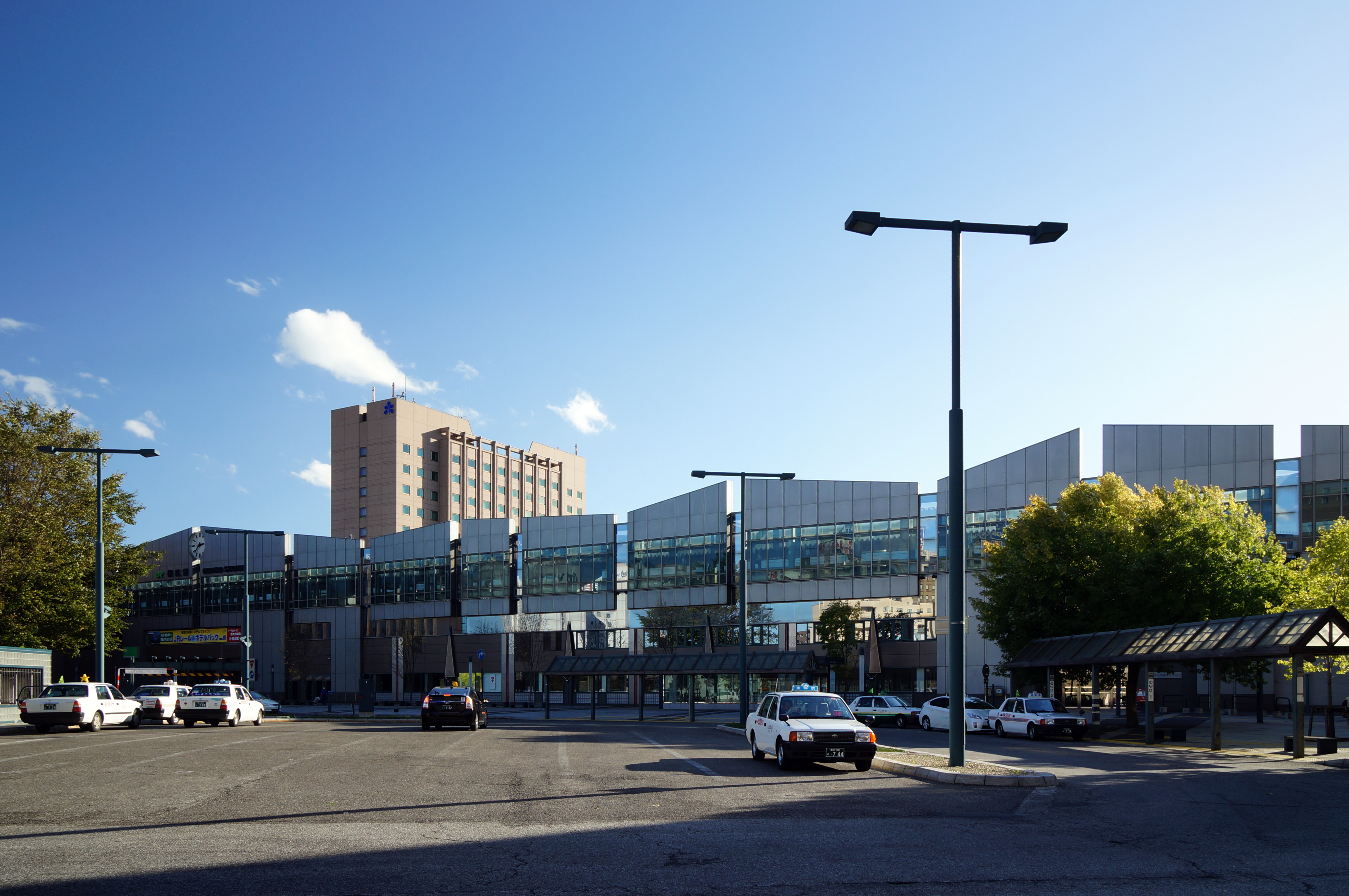 Obihiro Station in Obihiro, Hokkaido prefecture, Japan.